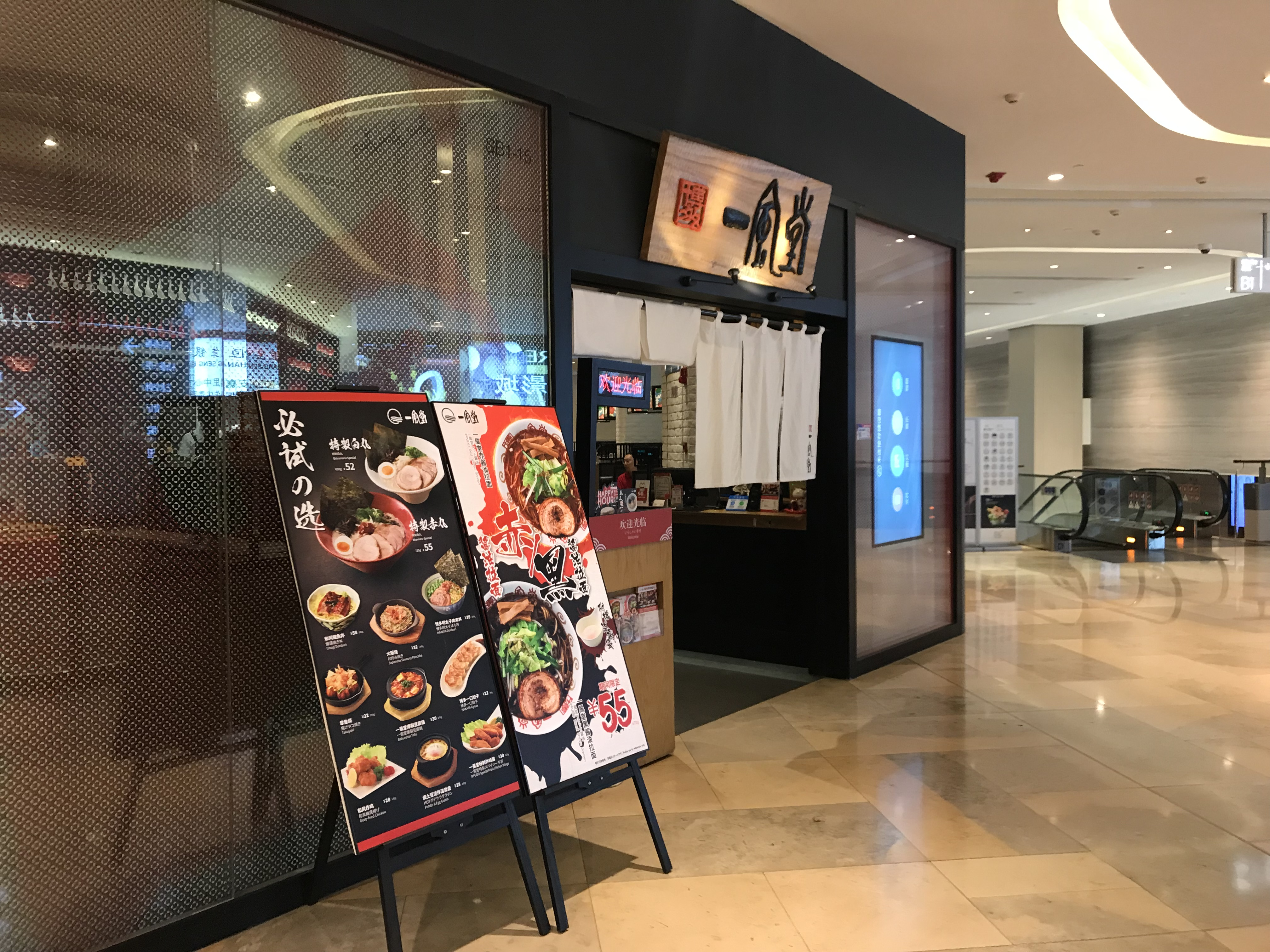 201806 Ipputo Ramen at Jing An Kerry Centre